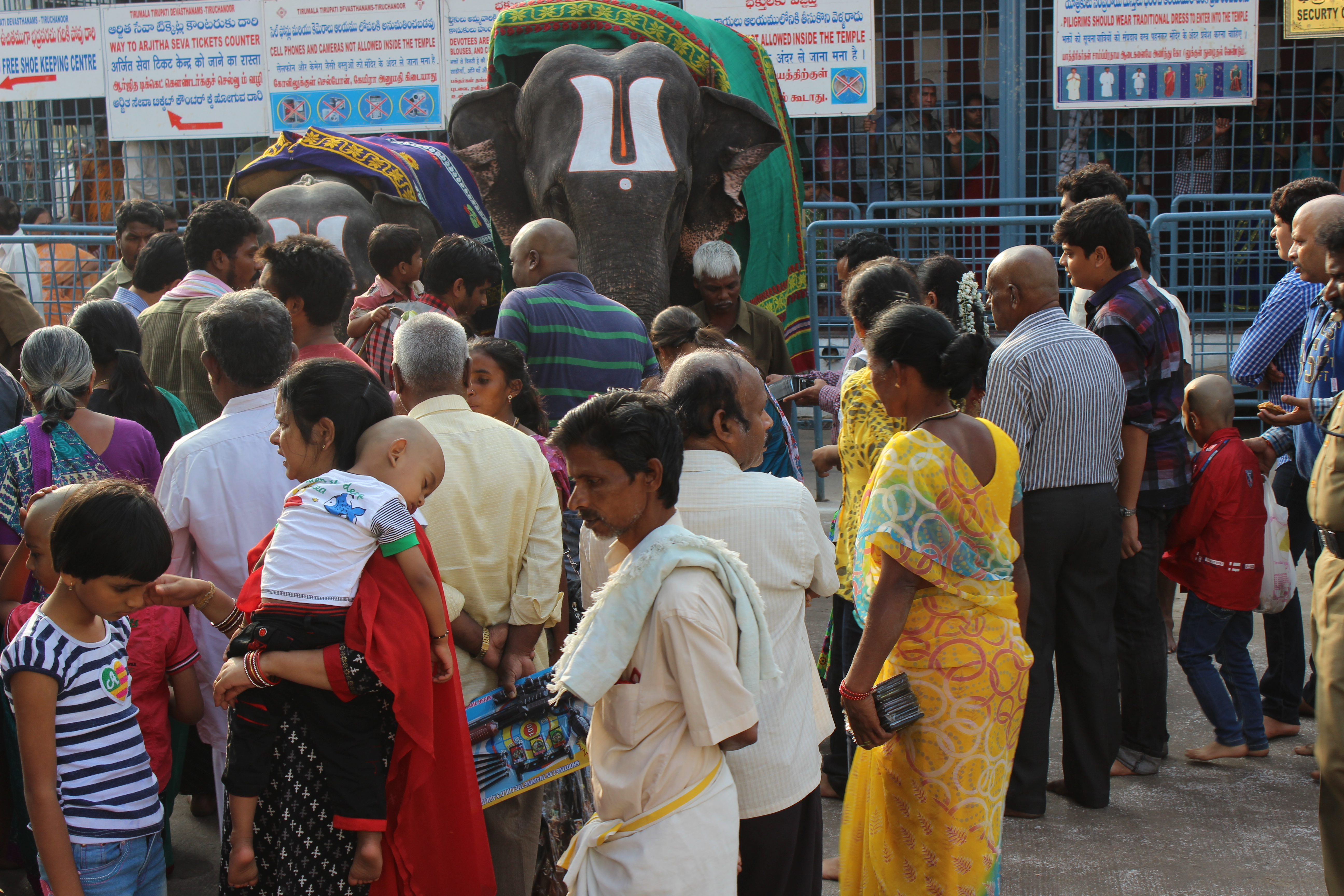 Thiruchanur